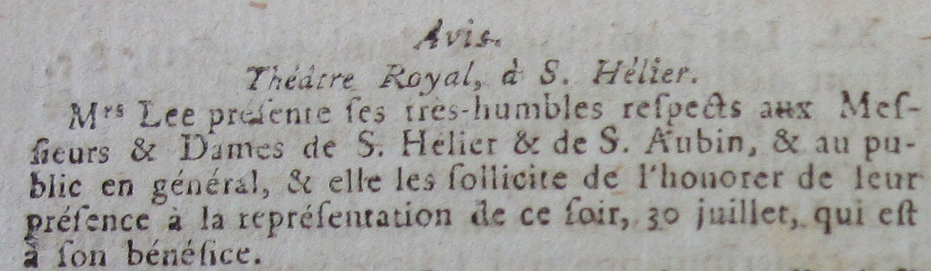 Advertisement for a theatrical presentation, Jersey: 1796